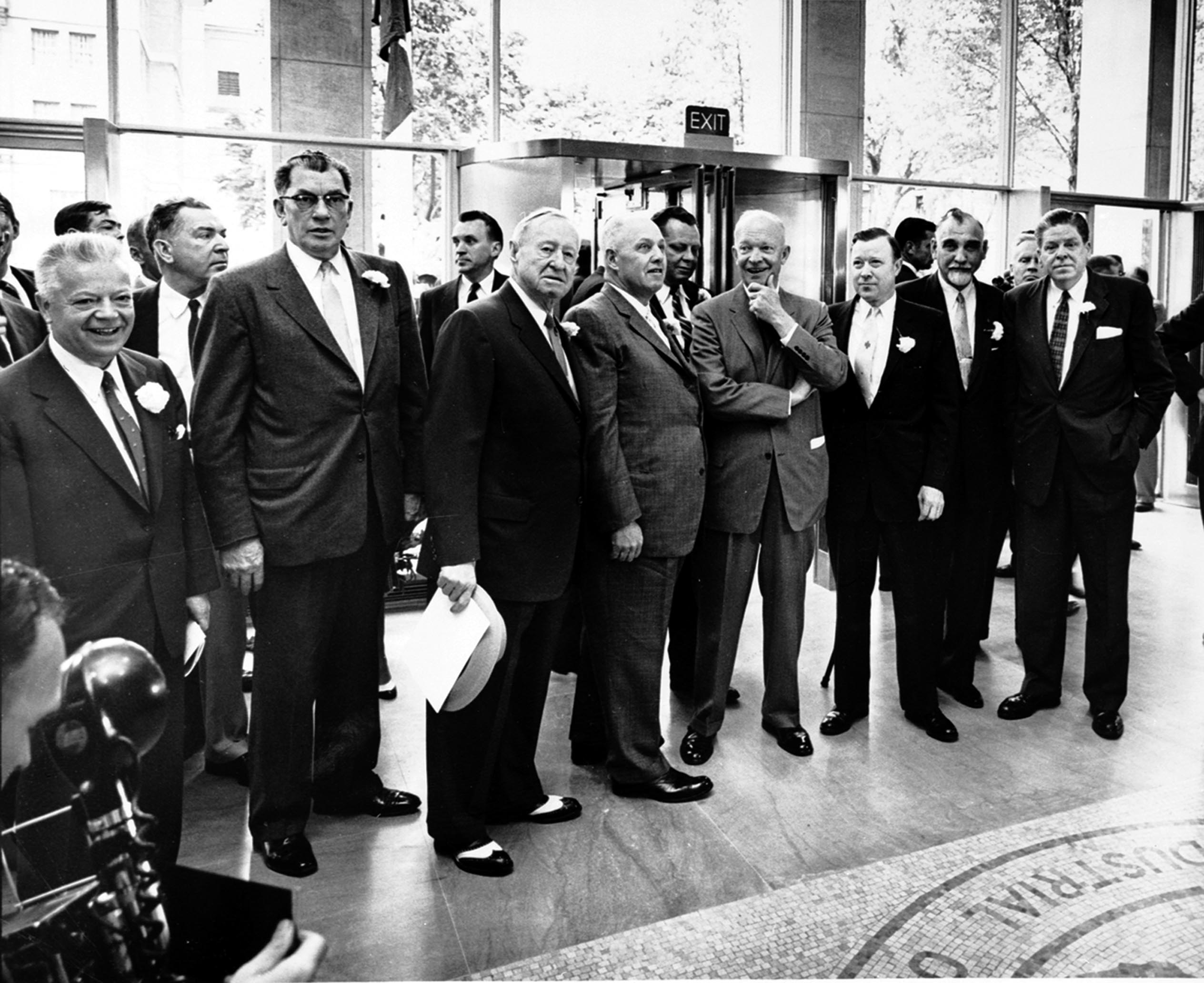 Title: AFL-CIO building dedication with David Dubinsky, William Green, President Dwight D. Eisenhower, Walter Ruether, Jacob Potofsky, James Mitchell and others June 4, 1956 Date: 1956 Photographer: Unknown Photo ID: 5780PB1F5H Collection: International Ladies Garment Workers Union Photographs (1885-1985) Repository: The Kheel Center for Labor-Management Documentation and Archives in the ILR School at Cornell University is the Catherwood Library unit that collects, preserves, and makes accessible special collections documenting the history of the workplace and labor relations. Notes: No additional information available. Copyright: The copyright status of this image is unknown. It may also be subject to third party rights of privacy or publicity. Images are being made available for purposes of private study, scholarship, and research. The Kheel Center would like to learn more about this image and hear from any copyright owners who are not properly identified so that we may make the necessary corrections. Tags: Kheel Center for Labor-Management Documentation and Archives,Cornell University Library,Ceremonies, Labor Leaders